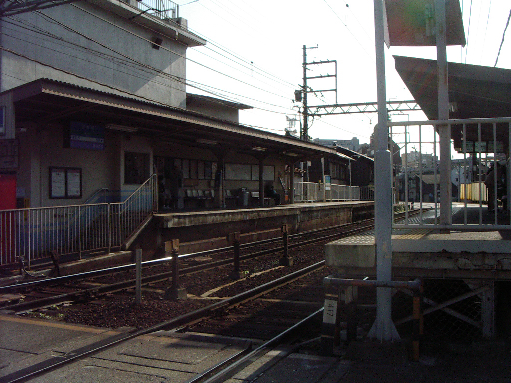 Keihan Miidera Station